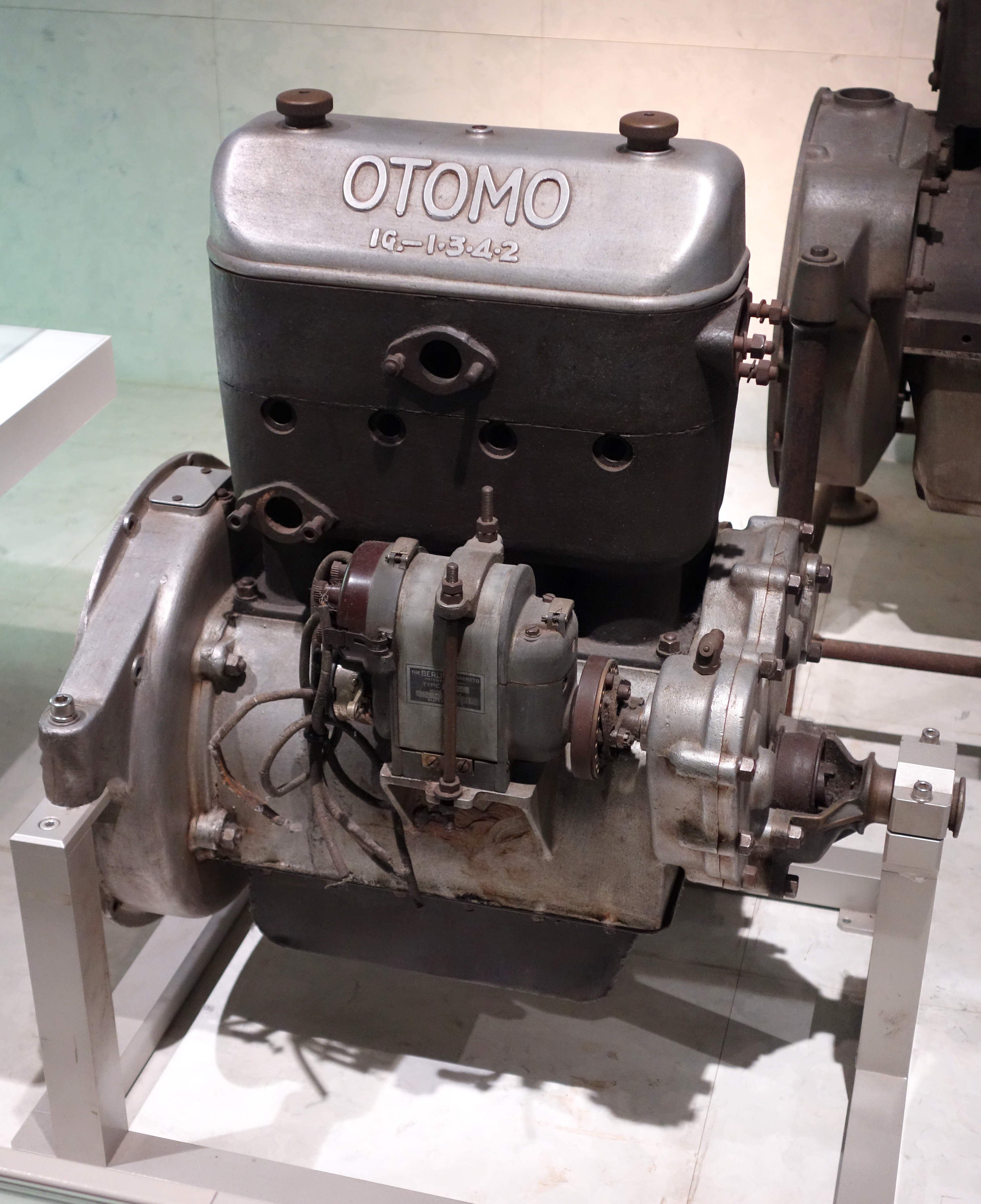 Exhibit in the National Museum of Nature and Science, Tokyo, Japan.